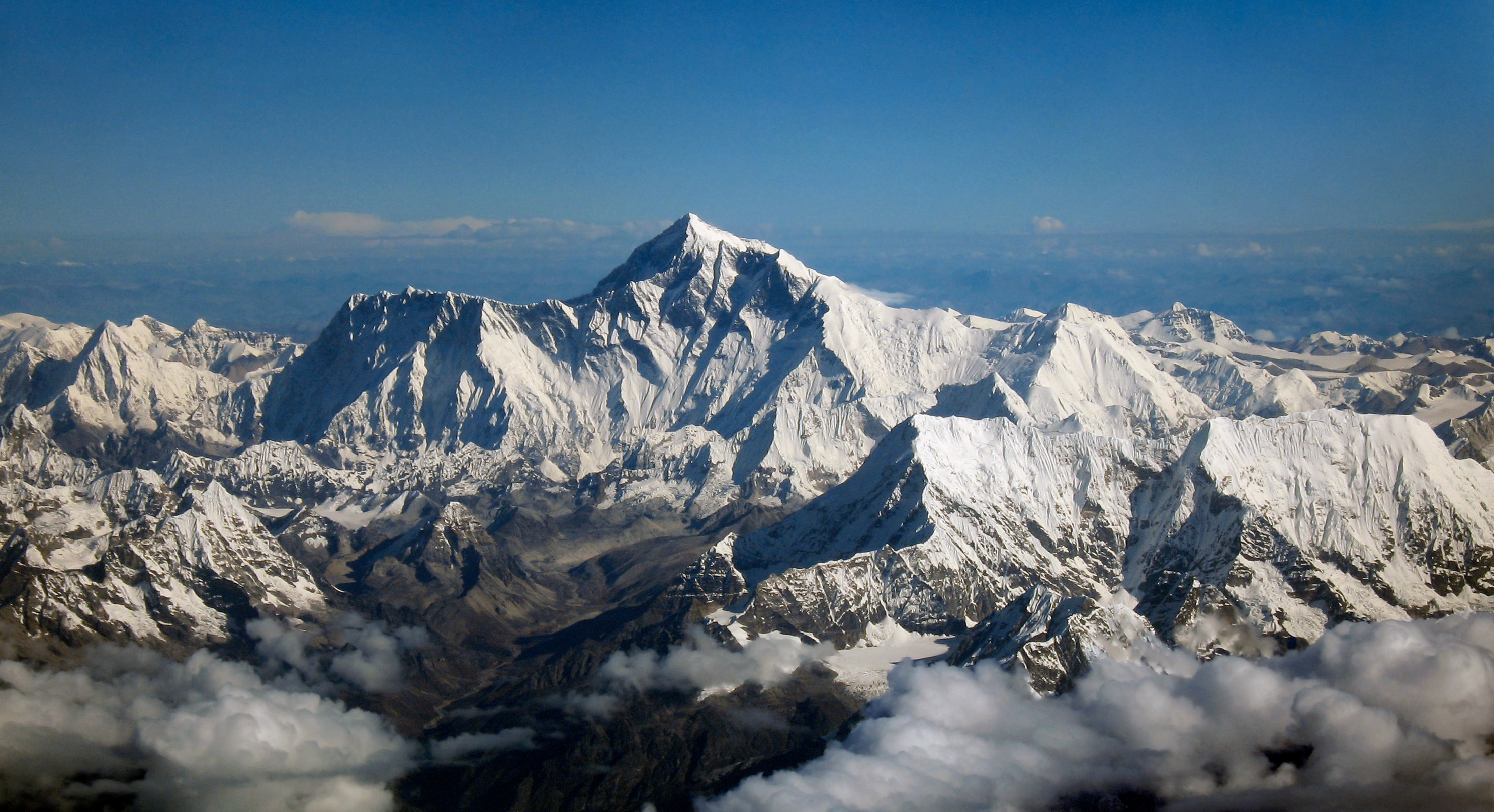 View northward of Mount Everest from an aircraft from airline company Drukair in Bhutan. The aircraft is south of the mountains, directed north. Mount Everest is above the ridge connecting Nuptse and Lhotse.